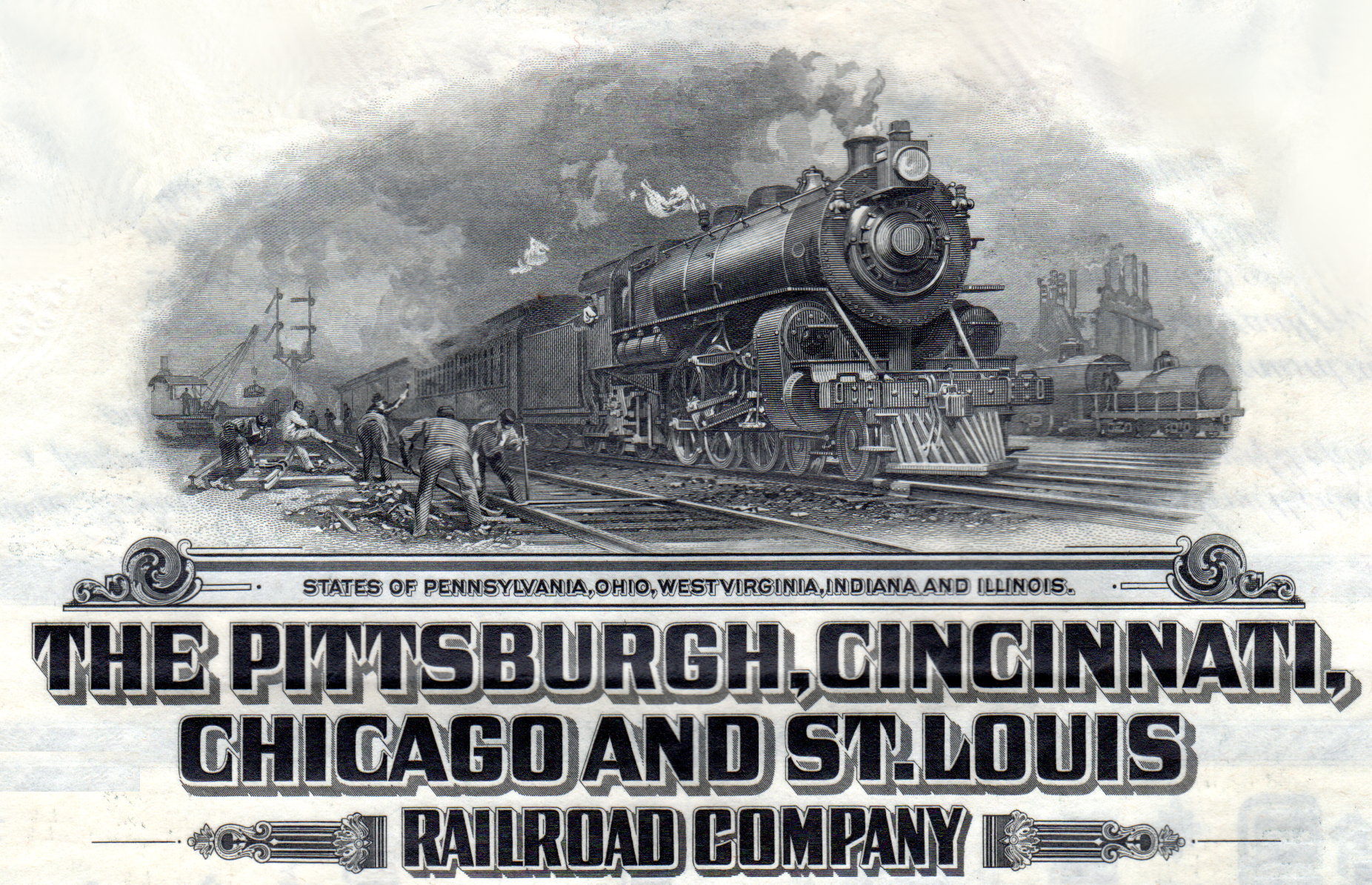 A detail from a $1000 bond issued by PCCSt.L RR in 1920.